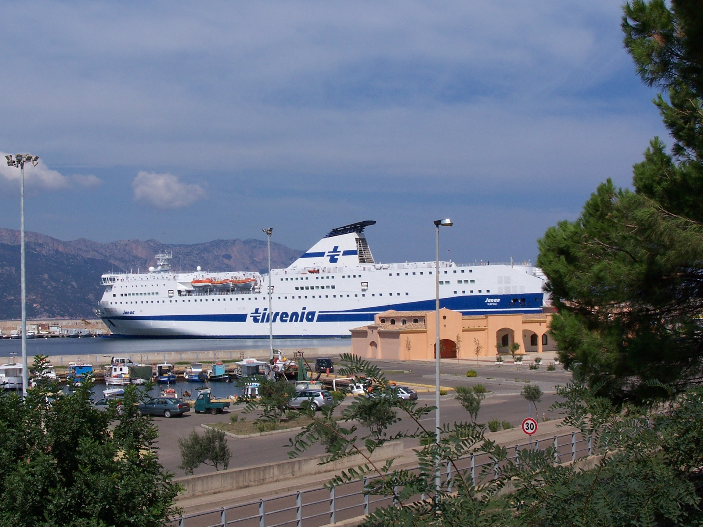 M/S Janas in the Arbatax harbour, before departure for Ganoa